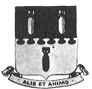 Emblem of the USAAF 21st Bombardment Group (World War II)